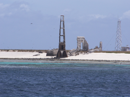 Ruins of the old lighthouse of the Rocas Atoll, with the new lighthouse in the background.